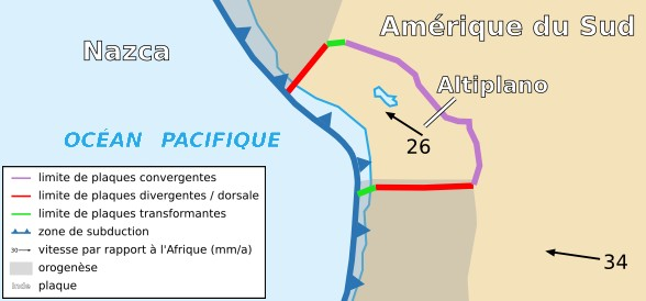 Map of the Altiplano Plate